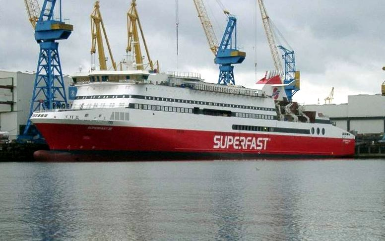 Greek ferry Superfast XI, SYCF, IMO 9227417 Photo: Wolfgang Hägele Source: own photo Date: 17-04-2002